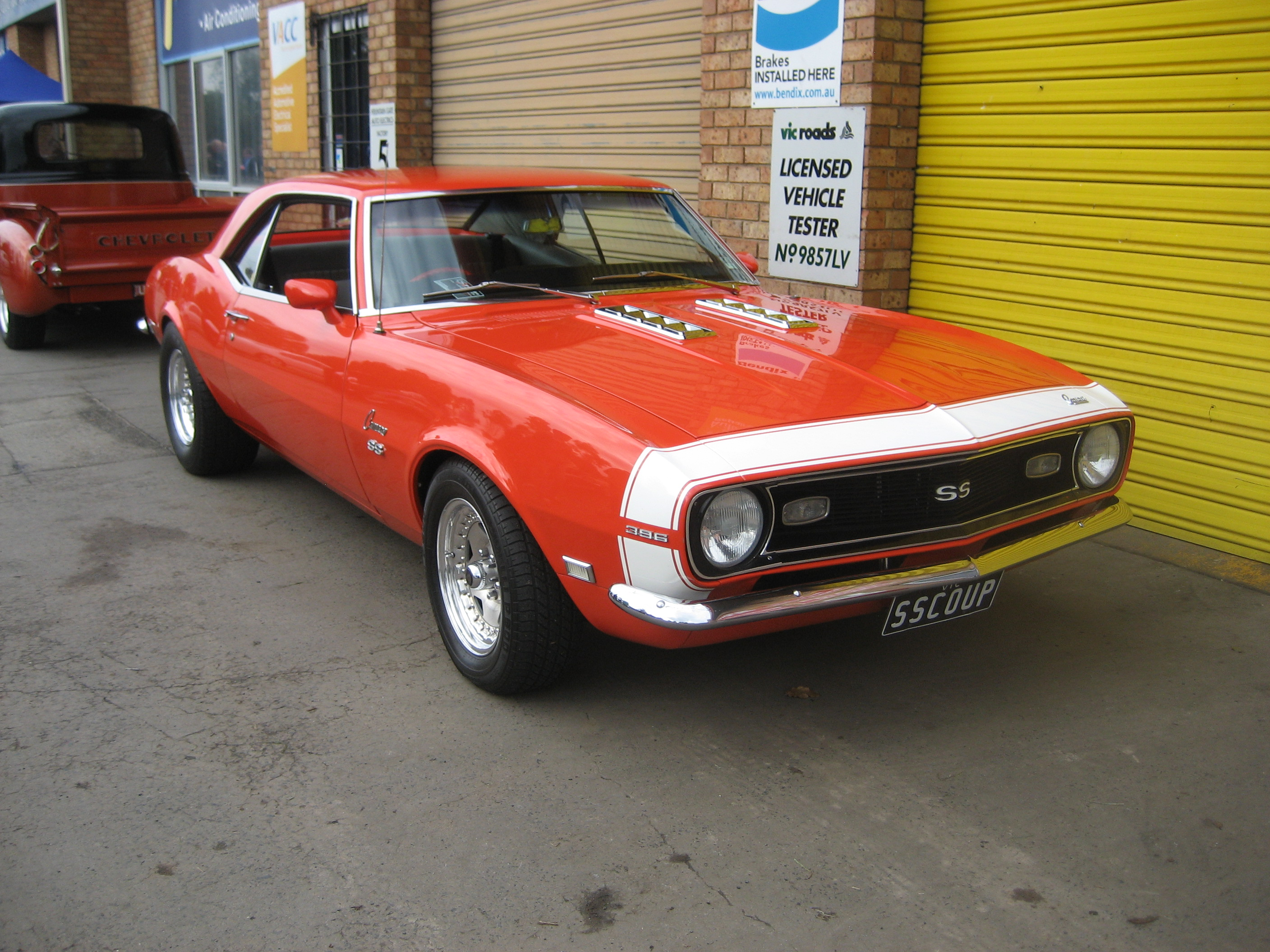 Engines; 295 bhp 350 or 375 bhp 396. SSs got fake air inlets on hood. 27884 SSs made in 1968